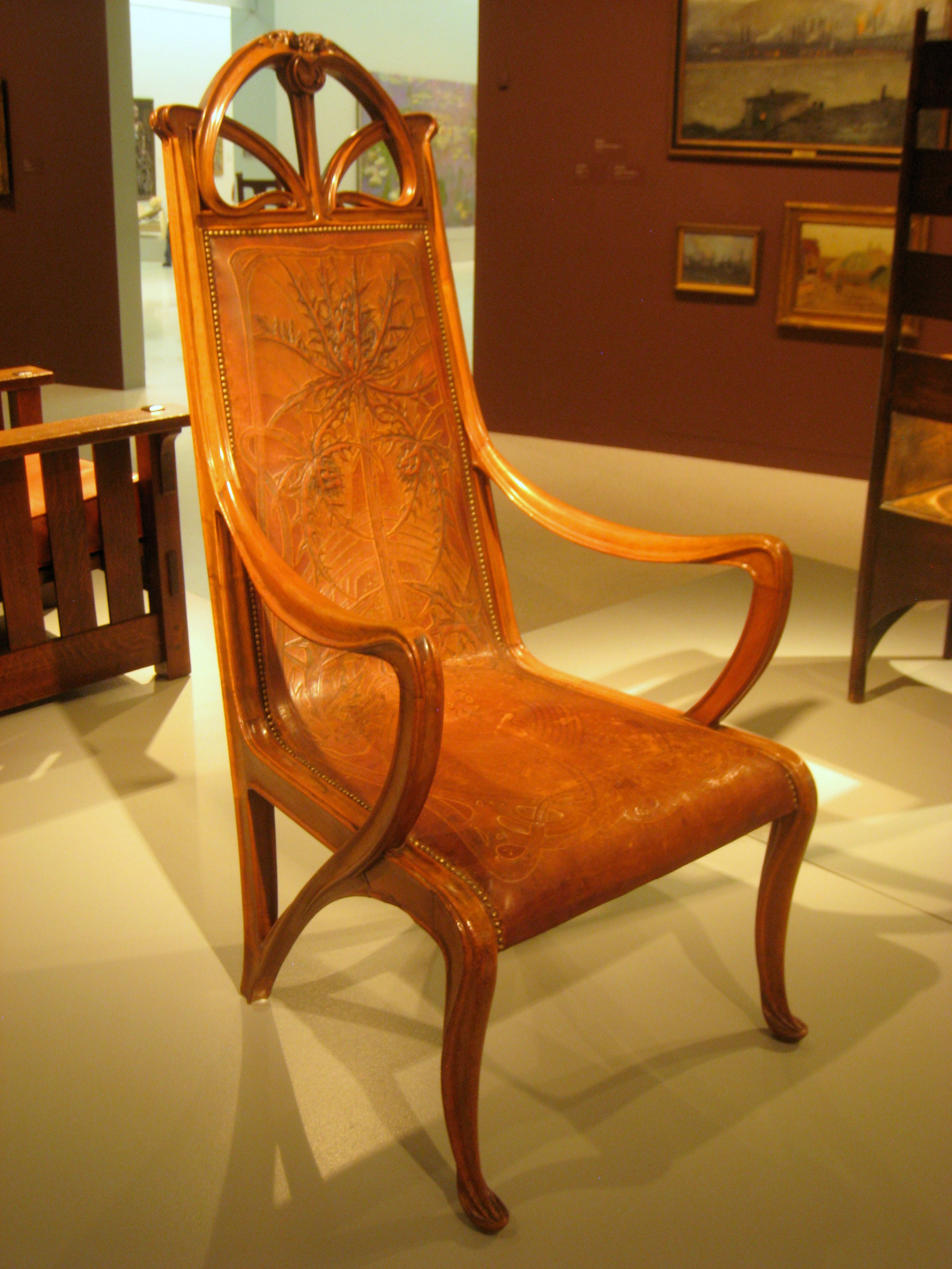 Armchair, Louis Majorelle, 1900, exhibited in the Carnegie Museum of Art, Pittsburgh, Pennsylvania, USA.